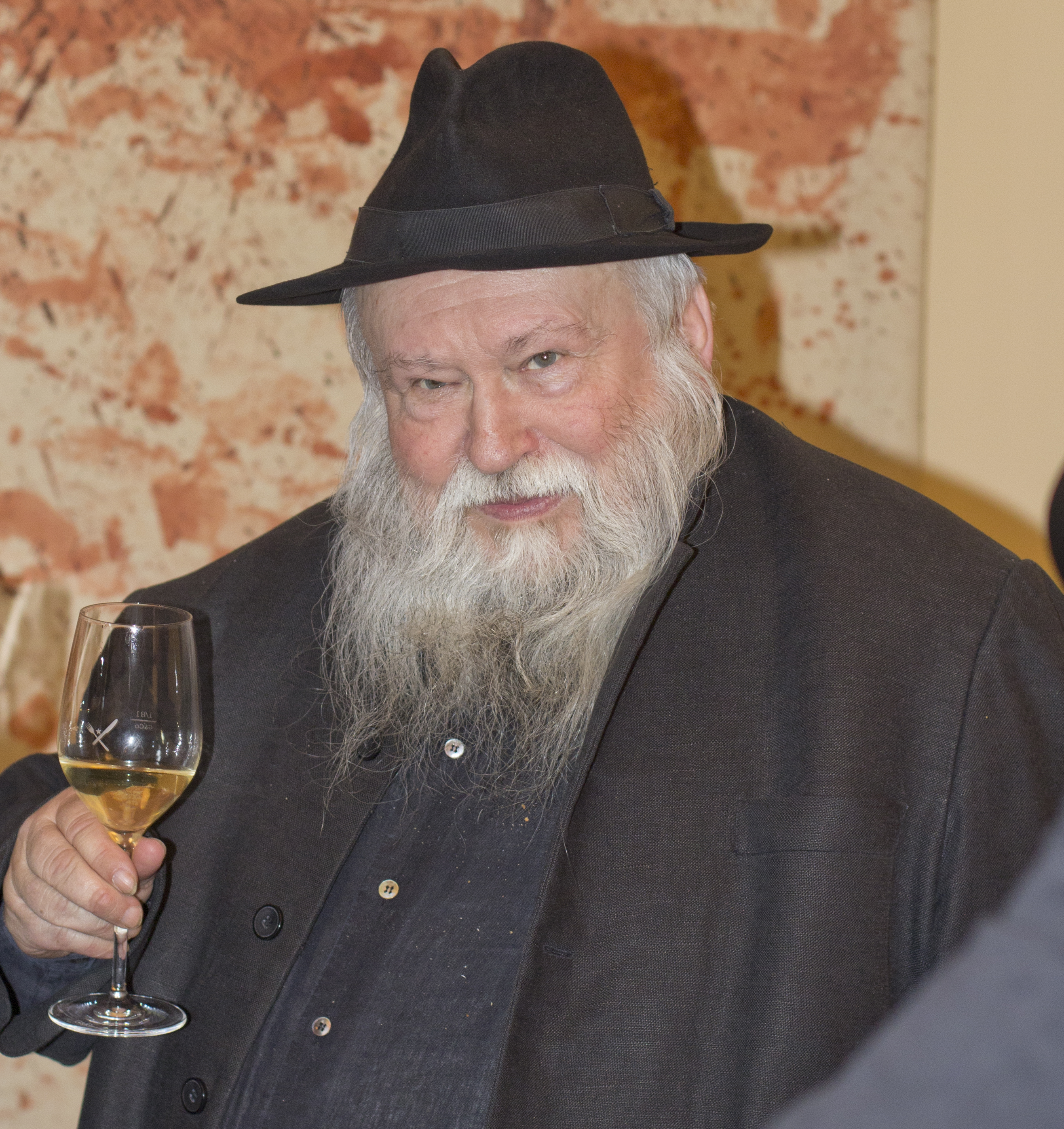 Hermann Nitsch on March 28. 2012 at the Presentation of his Wine at Gmoakeller (Vienna)